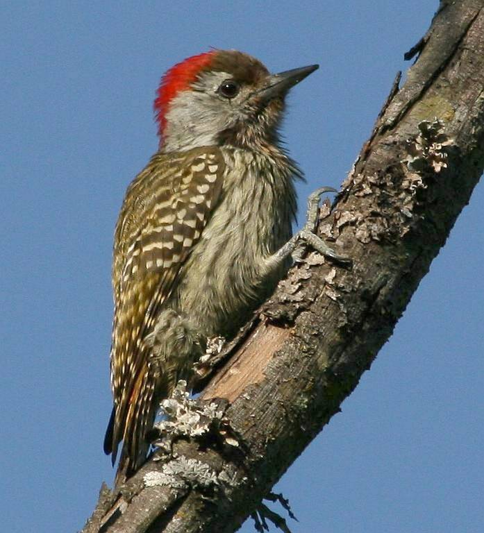 Male Cardinal Woodpecker on an ageing Pigeonwood tree in our garden